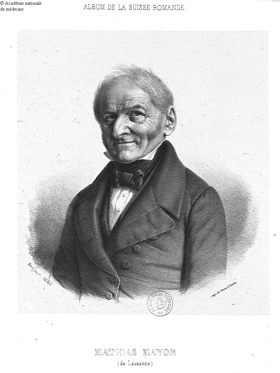 Mathias Mayor (1775-1847) swiss surgeon from Lausanne